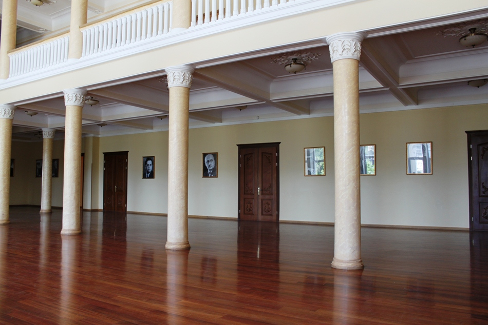 Baku Music Academy